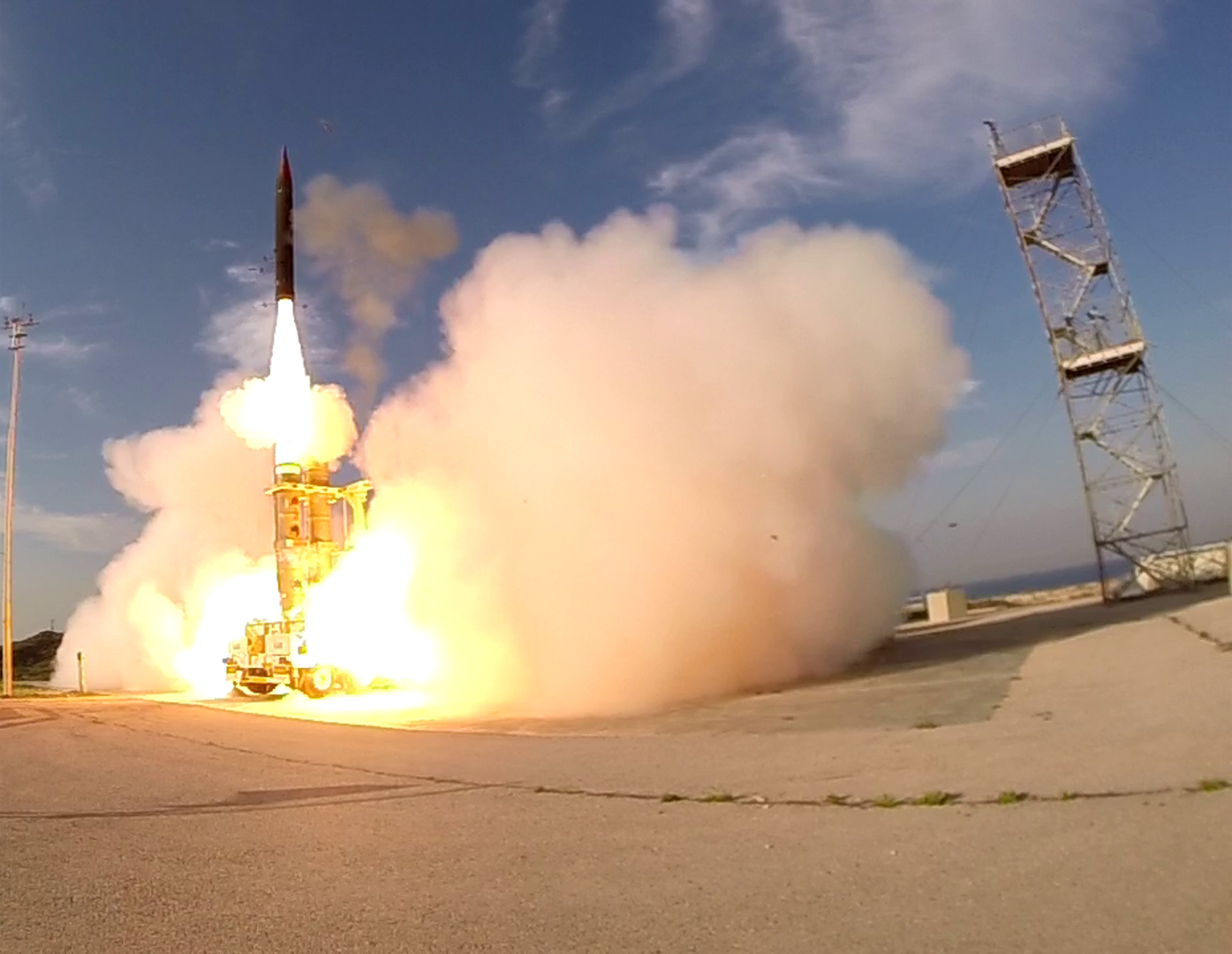 The Israel Missile Defense Organization (IMDO) of the Directorate of Defense Research and Development (DDR&D) and the U.S. Missile Defense Agency (MDA) conducted a successful first engagement of a ballistic missile target with the Arrow-3 interceptor.